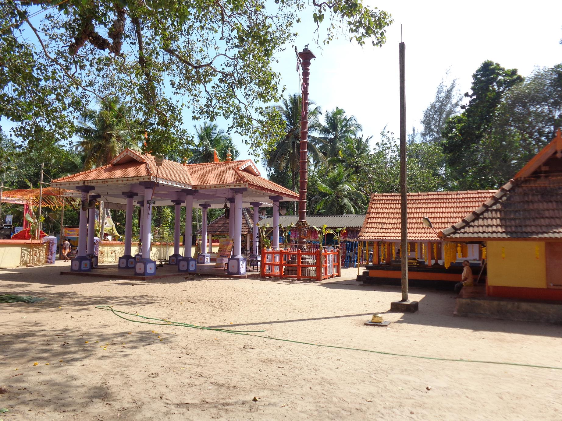 kattuvally ayyappa temple, mavelikara